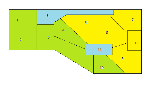 A solution for an example of Set cover problem: green, places cover by 5; yellow, places cover by 8; blue, places cover twice